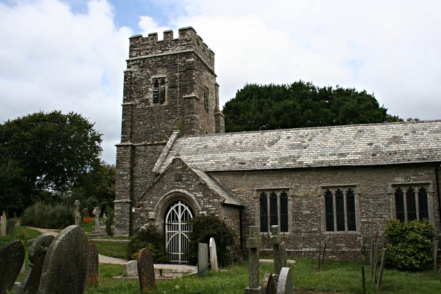 St Veep Parish Church. It was originally dedicated to St Veepus but was rededicated when it was rebuilt in 1336 to St Cyricus and St Julietta. The church, like many others locally was extensively restored in the 19th century. It has a peal of 6 bells which were cast in a nearby field in 1770 and famously have never needed tuning, such bells are known as 'maiden bells'.